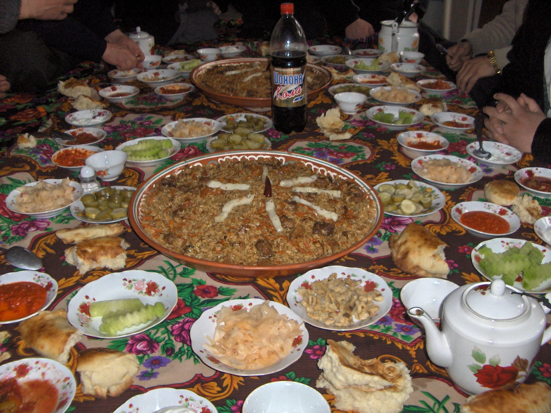 Tajik dastarkhon - table clothe with oshi palov